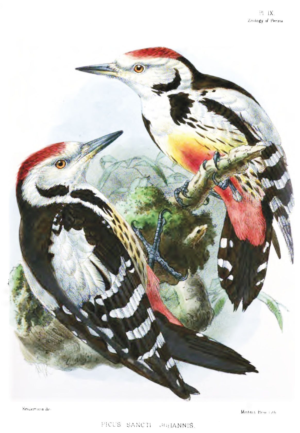 Dendrocopos medius sanctijohannis named by William Thomas Blanford after O. B. St. John